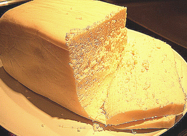 Adobera cheese is a type of soft Mexican cheese.